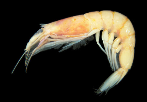 PRESERVED_SPECIMEN; ; 70% alc.; Det. by: Christopher B. Boyko 2005; BRC img; IZ number 34767; lot count 1; 2004-06-05T00:00:00Z